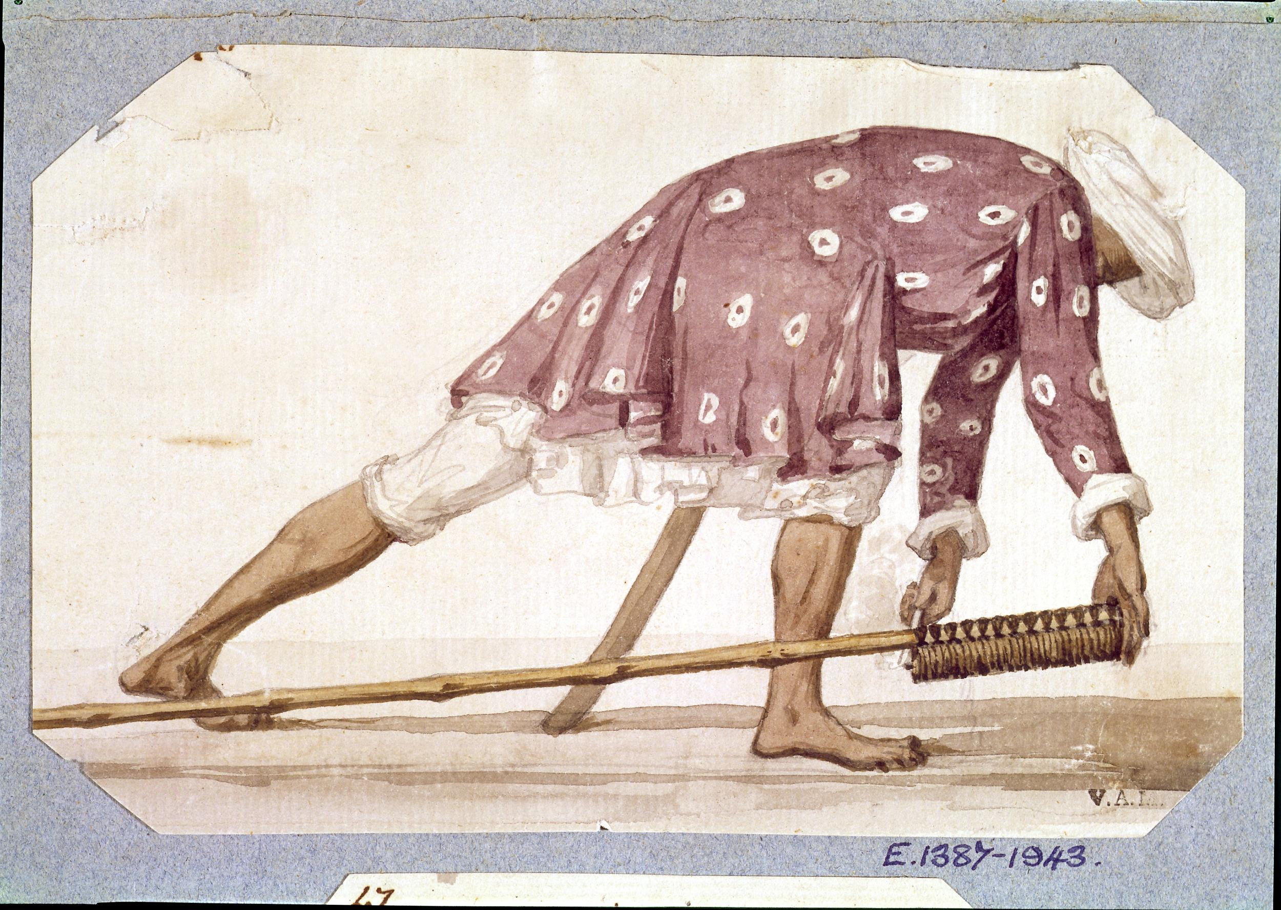 Mysore rocket man by British artist Robert Home. Indian soldier of Tipu Sultan's army is shown lifting a rocket from ground, holding its head-end by one hand and lighting the fuse by another. The traditional costume of Tipu's infantry generally consists of a 'Tyger Jacket', a long purple woollen shirt with white diamond formed spots on it. On his head the soldier wears a red and white muslin turban, matching the red sash around his waist. Beneath his white trousers, his legs and feet are bare. Artist: Home, Robert, born 1752 - died 1834 (artist) Height: 10.2 cm, Width: 15.8 cm